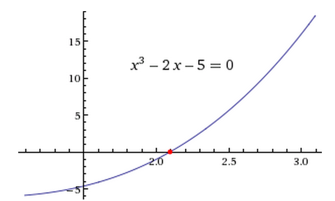 2.094551481542327 ; root of x^3-2x-5=0